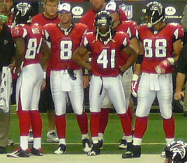 Roddy White, Chris Redman, Antoine Harris and Tony Gonzalez (tight end); If used somewhere other than Wikipedia, Nelson, by name.